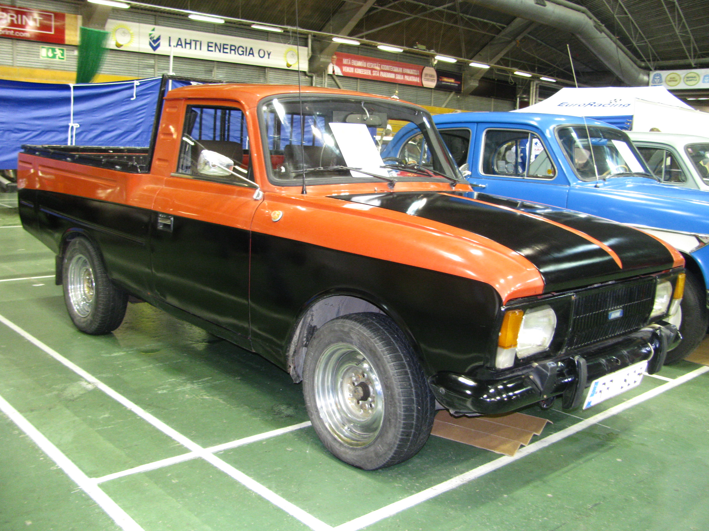 Moskvich pick up IZh 27151-013-01 wih an extended bed to meet the requirements of Finnish legislation. Classic Motor Show in Lahti, Finland.